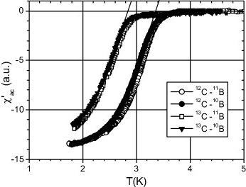 The dispersive part χ′ of the magnetic ac susceptibility of four boron-doped diamond samples